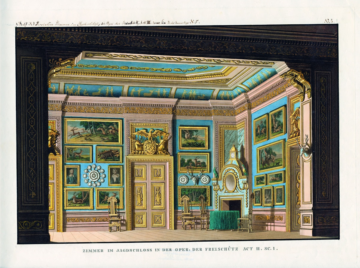 Set design for the hunting lodge in Der Freischutz